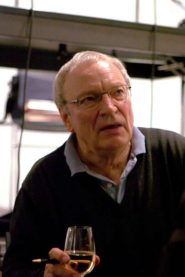 Uwe Timm at Literaturhaus Cologne